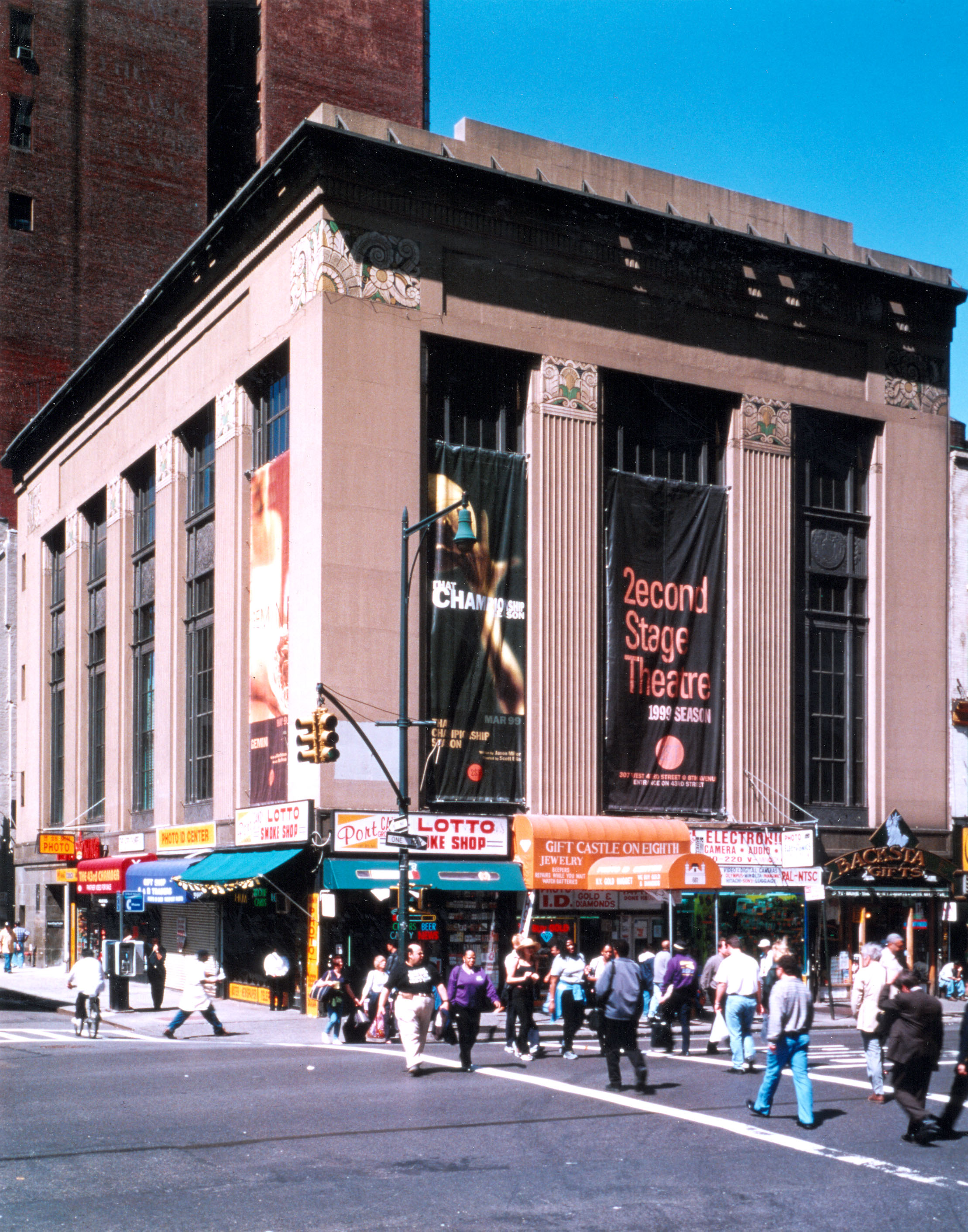 The Second Stage Theatre on 43rd Street and Eighth Avenue in New York City.